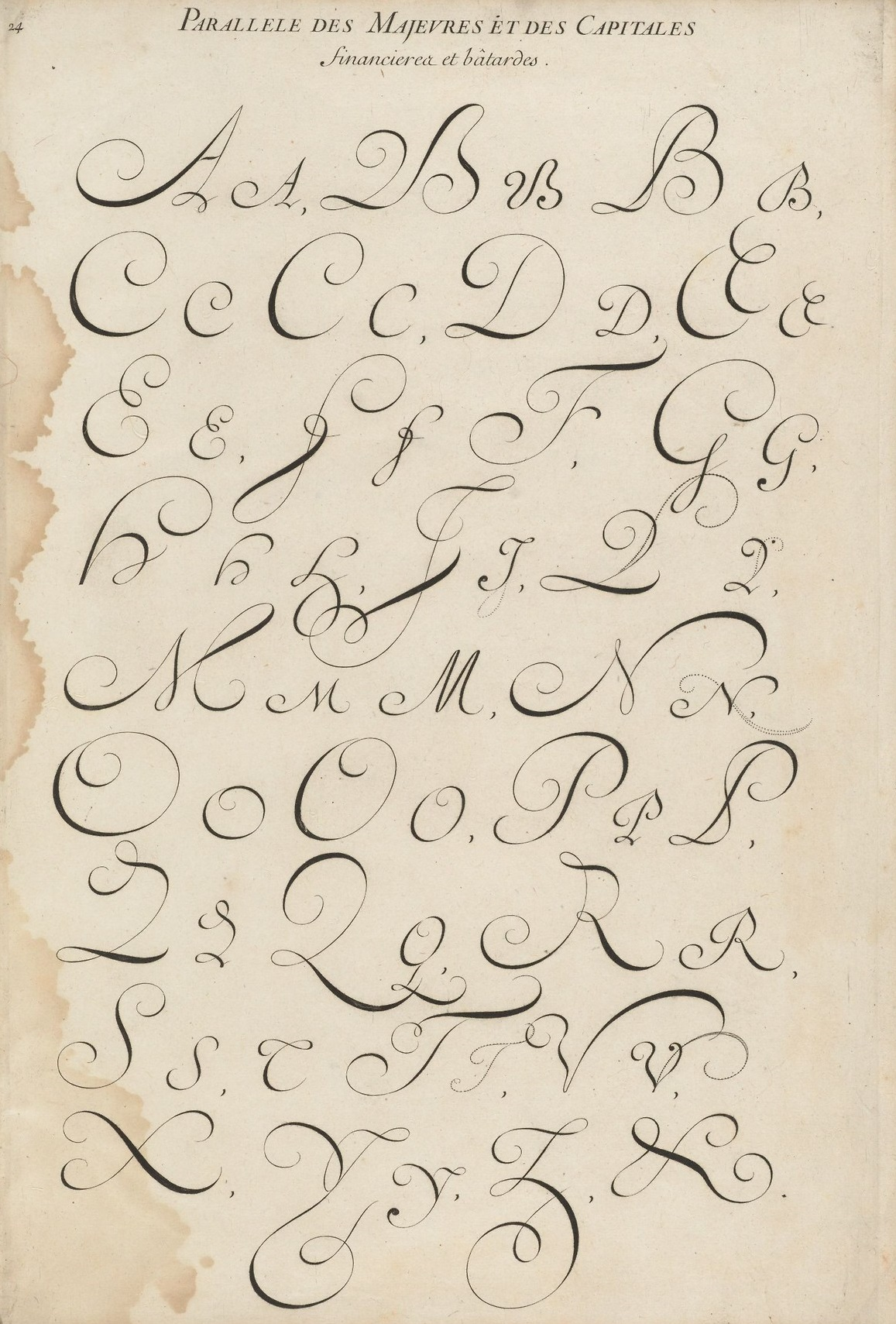 "Parallele des Majevres et Des Capitales" by Jean Baptiste Alais de Beaulieu, from L’art d’ecrire, 1680. [ TypW 615.80.134, Houghton Library, Harvard University